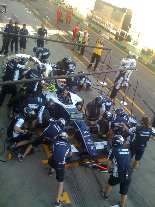 The Williams team practice pit stops. #melbf1